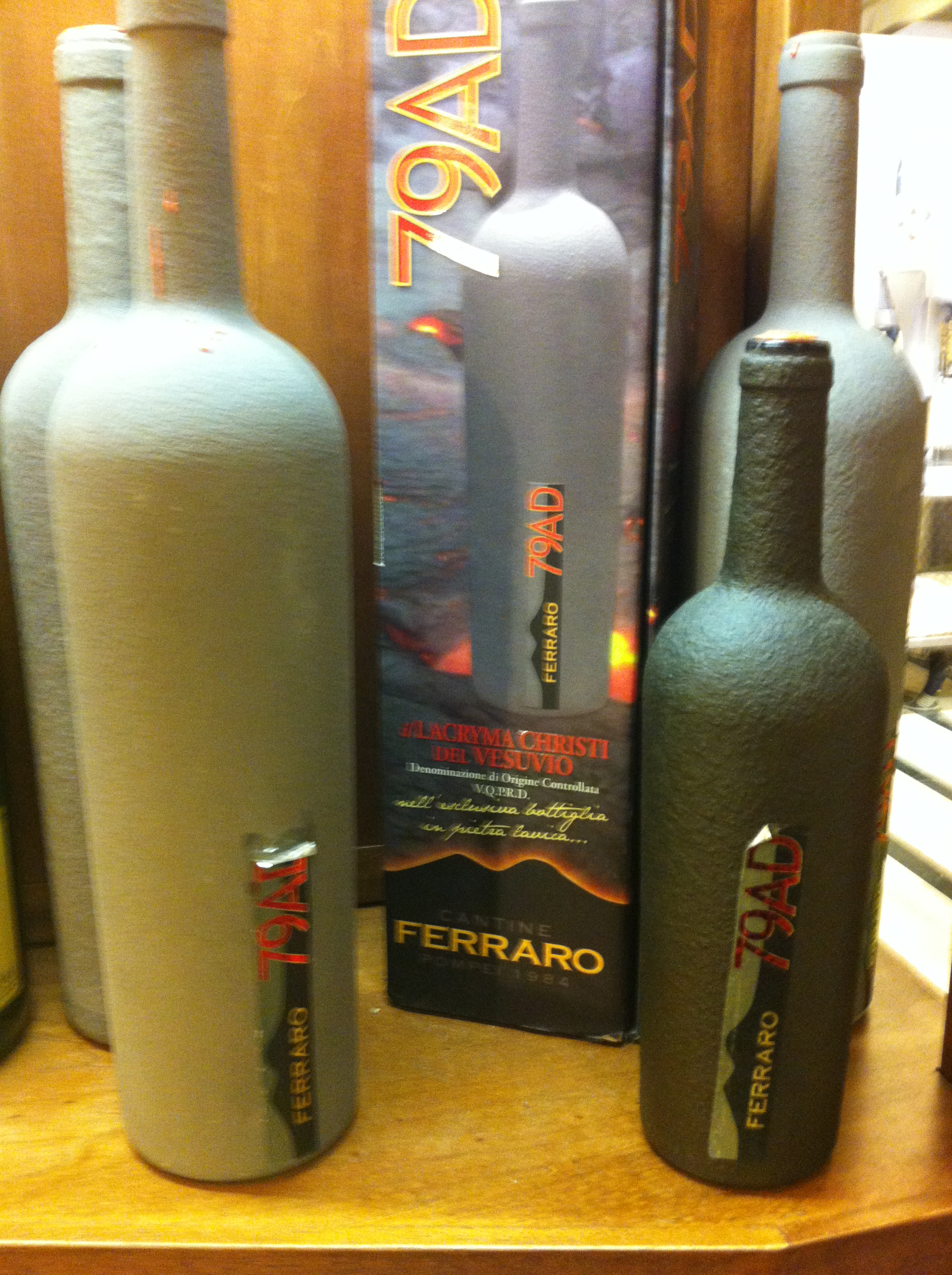 Italian wine from the Campania region of southern Italy near Naples. Sold outside a gift shop by Mt. Vesuvius.